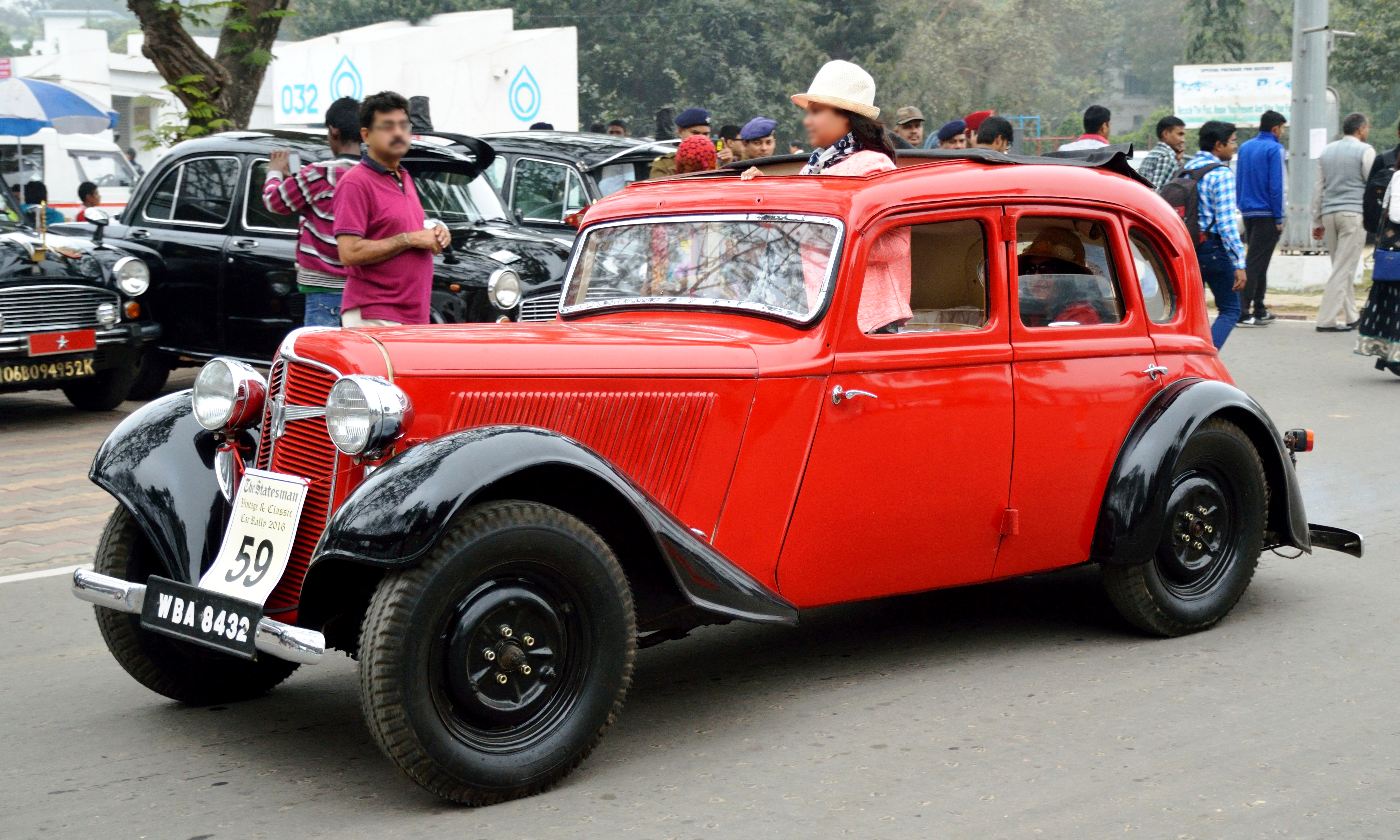 Adler 2-Liter (1939) photographed in 2016, photographed during ‘The Statesman Vintage & Classic Car Rally 2016’at the Eastern Command Sports Stadium of Fort William, Kolkata.